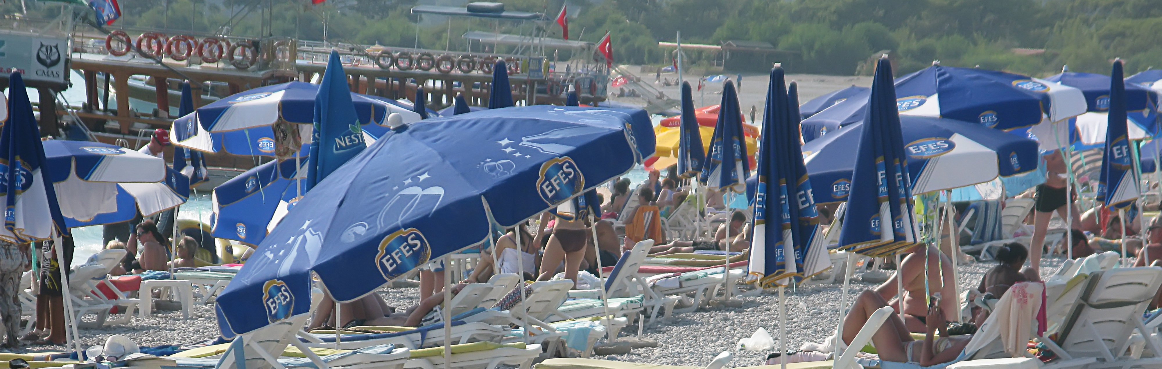 Blue parasols on a crowded beach on the south coast of Turkey advertising Efes Beer